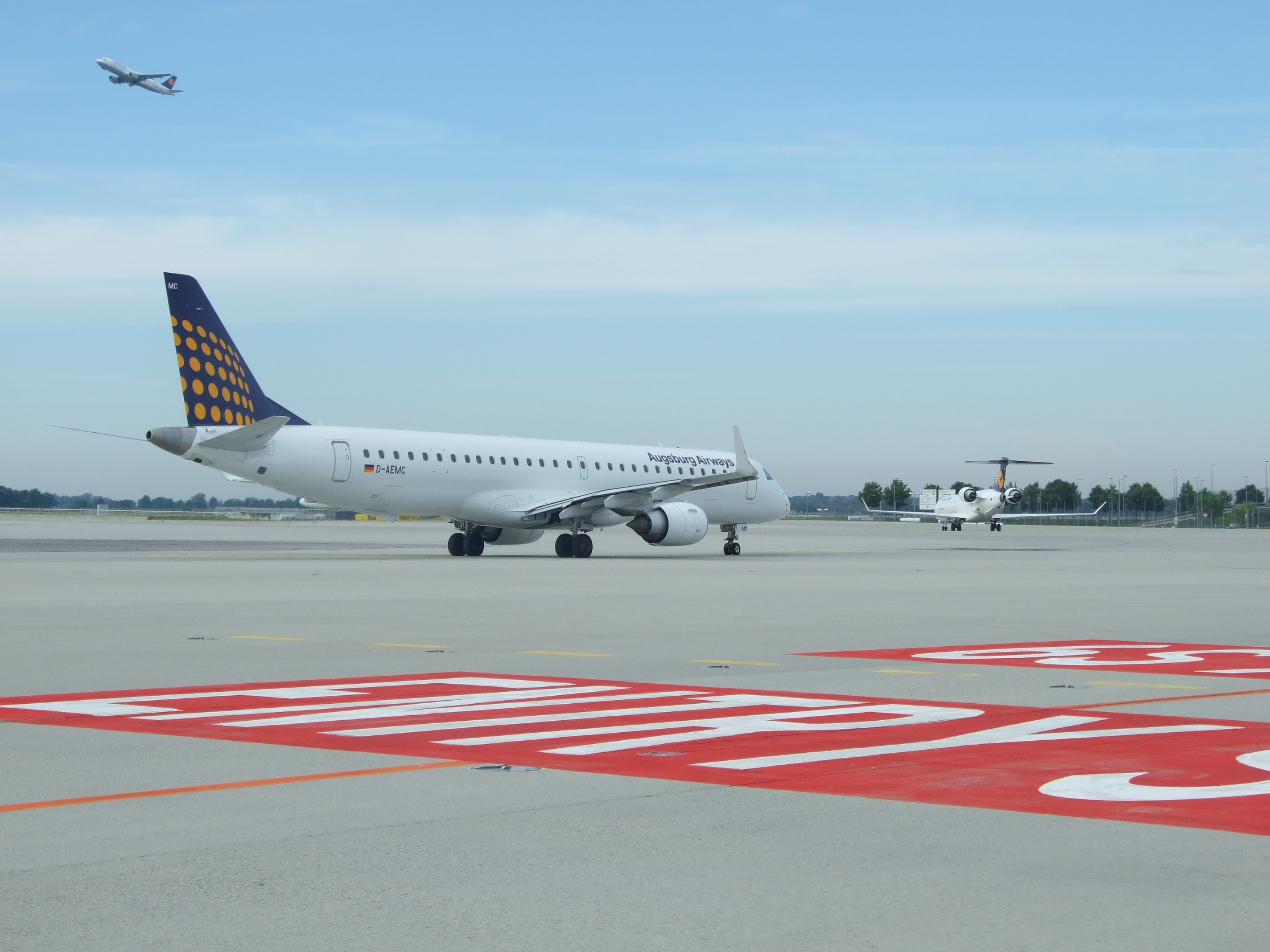 Former Augsburg Airways, now Lufthansa CityLine, Embraer ERJ-195LR "D-AEMC" and Lufthansa CityLine/Lufthansa Regional Bombardier CRJ700 on the apron of Munich Airport. Lufthansa Airbus A320 after airborne in background.